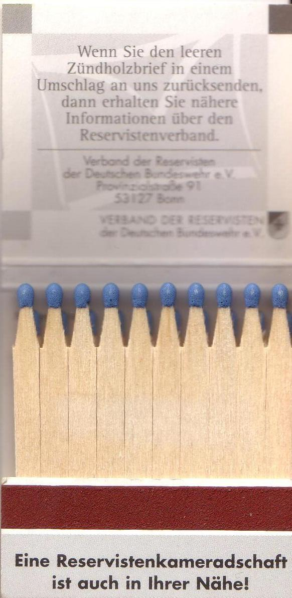 matchbook (open) with advertising for the german reservists' association